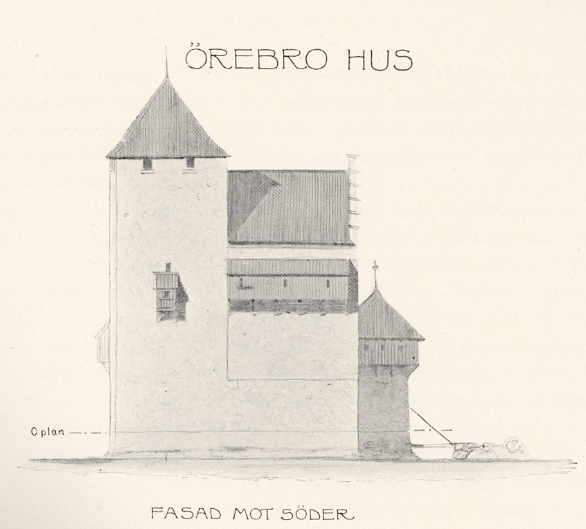 The castle in Örebro in the 1400th century